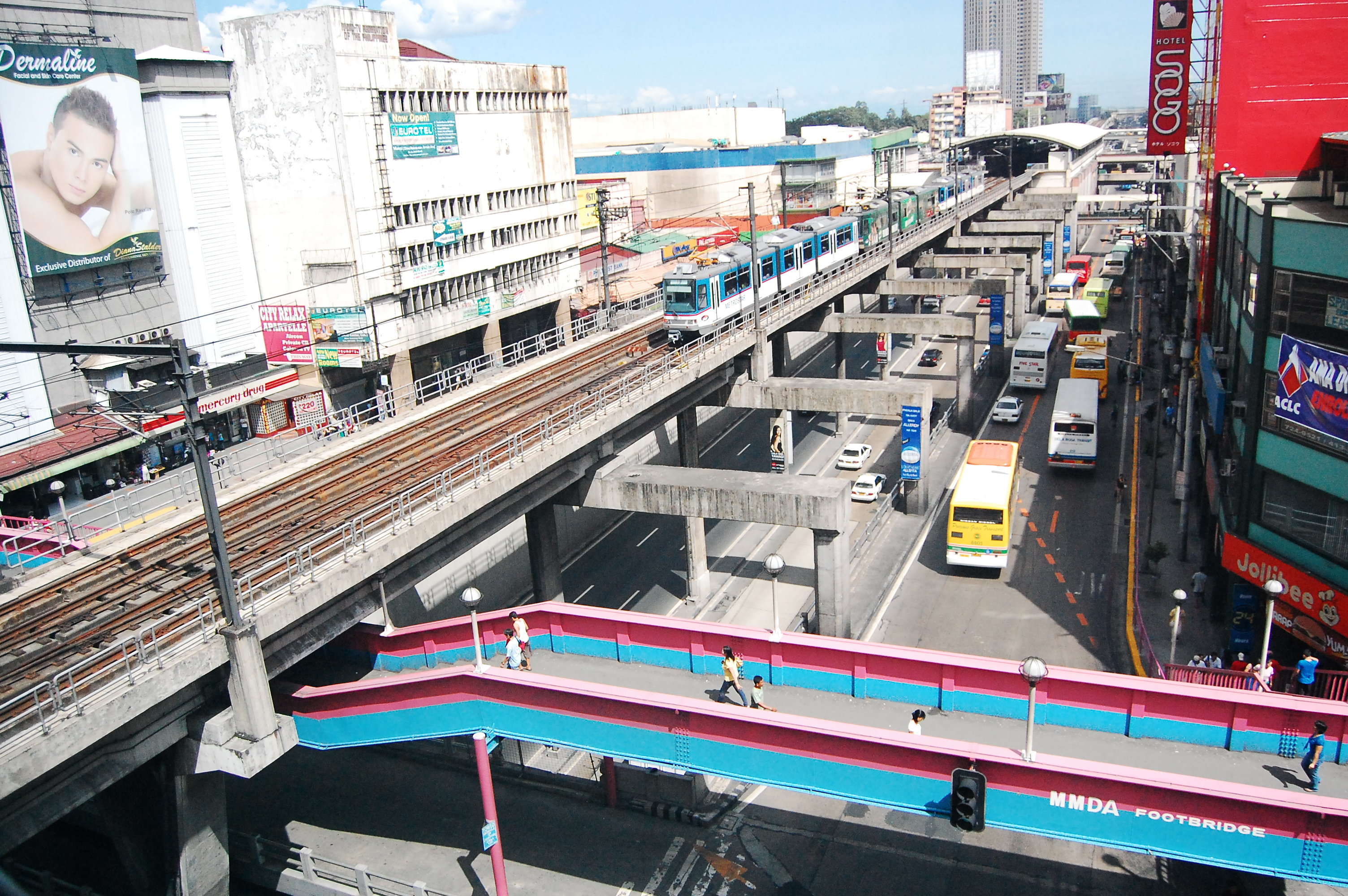 A train approaching the MRT Line 3 Araneta Center-Cubao Station. Tagalog: Isang tren na papuntang Araneta Center-Cubao Station ng MRT Line 3.